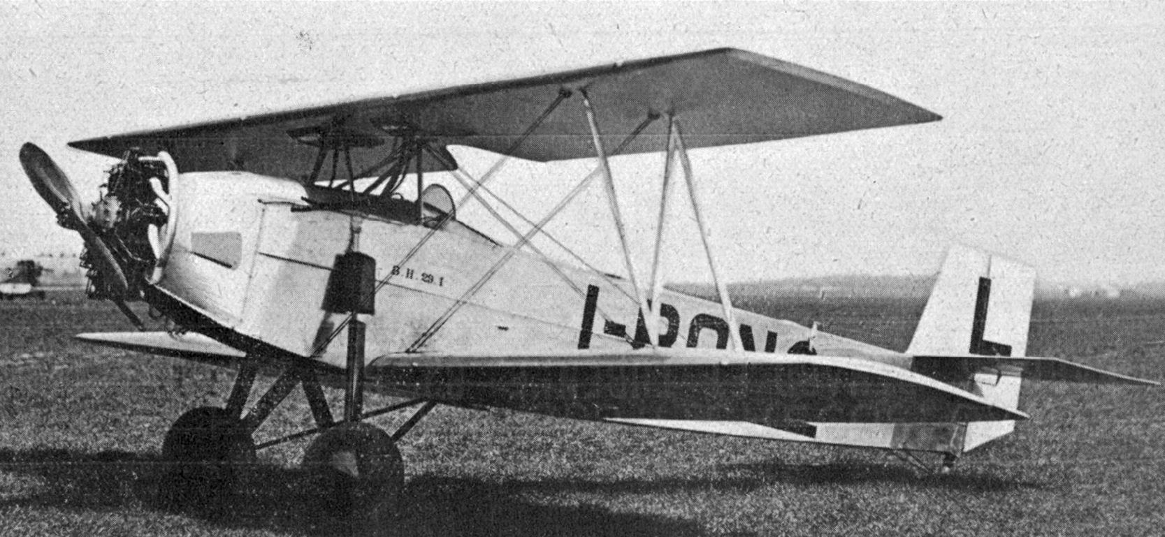 Avia BH-29 photo from L'Aéronautique August,1928